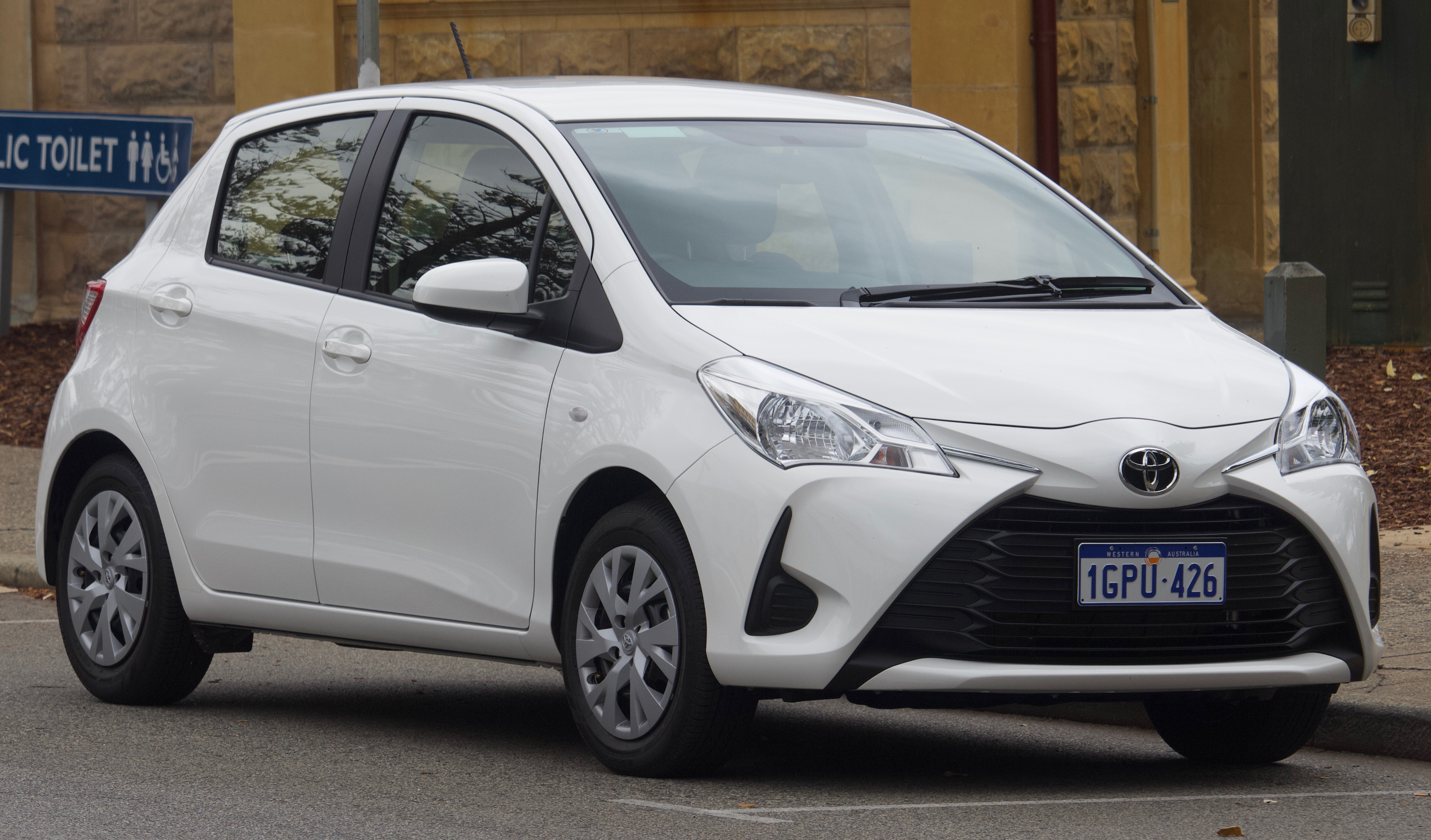 2018 Toyota Yaris (NCP130R) Ascent 5-door hatchback. Photographed in Fremantle, Western Australia, Australia.